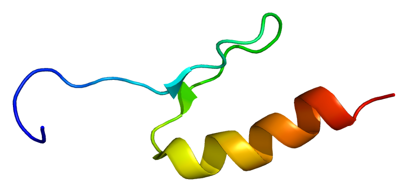 Structure of the SP3 protein. Based on PyMOL rendering of PDB 1va1.